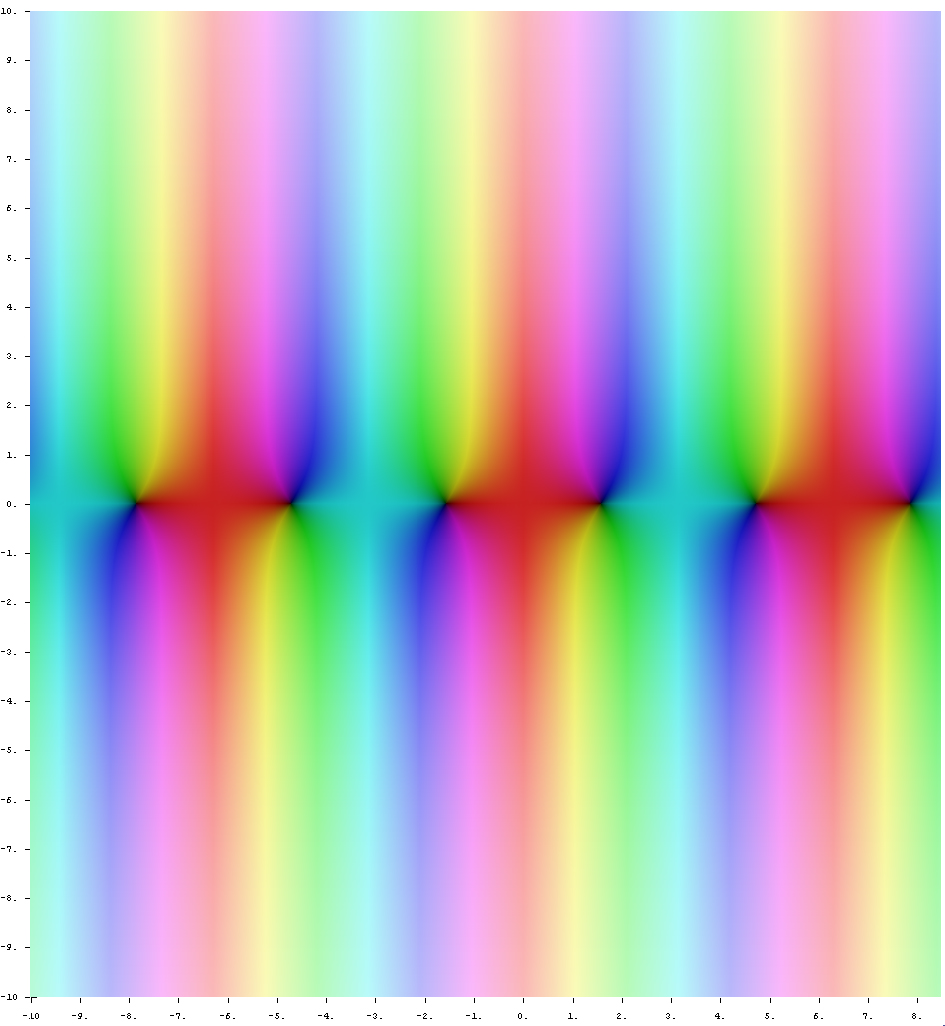 function Cos[z] in the complex plane